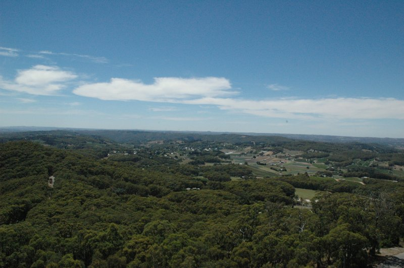 Photo of Piccadilly taken from mount Lofty by Mel Mazzone 2005